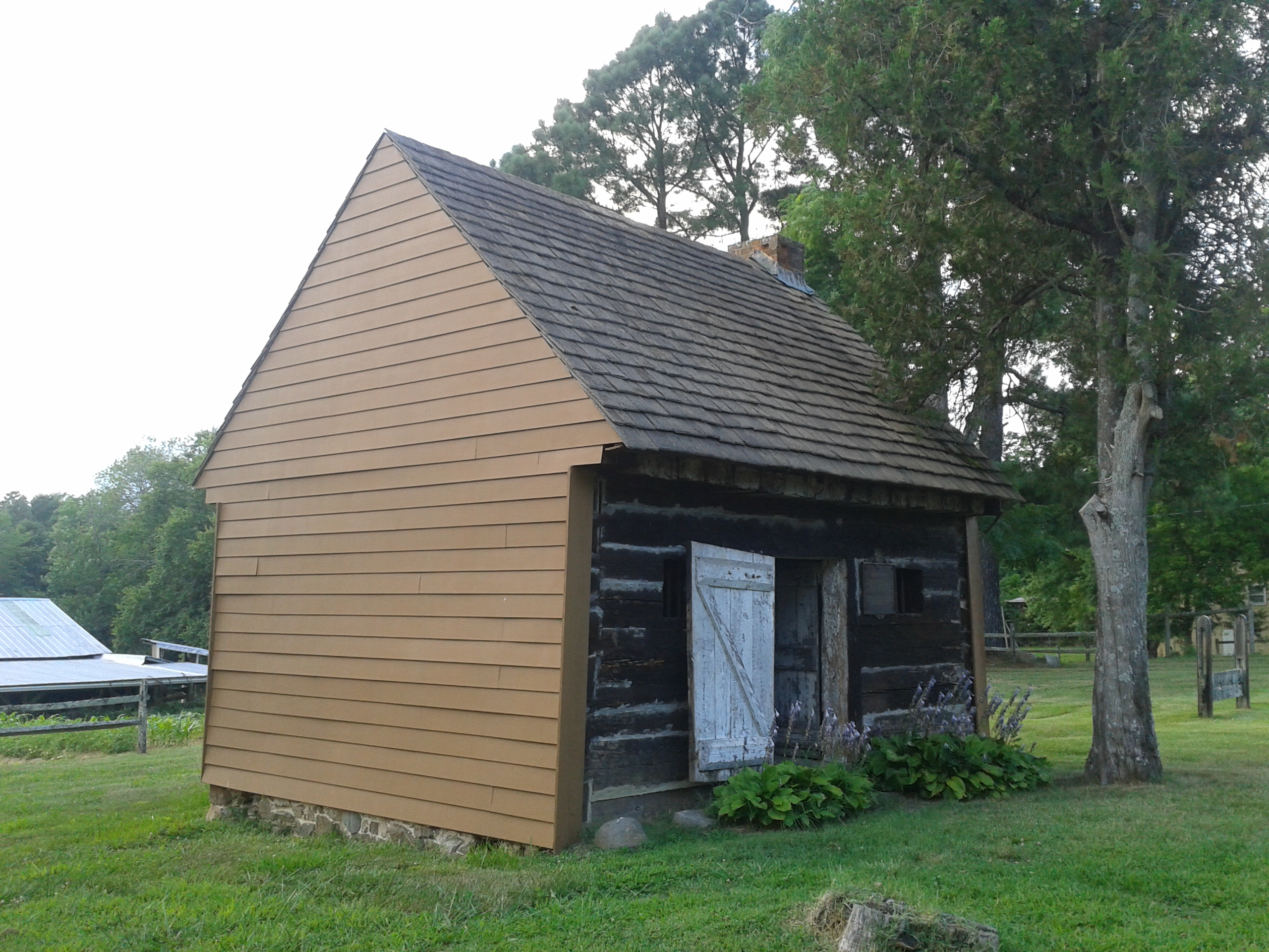 Exterior view of the debtors' prison in Worsham, VA